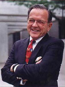 Ted Stevens, former President Pro Tempore of the United States Senate.